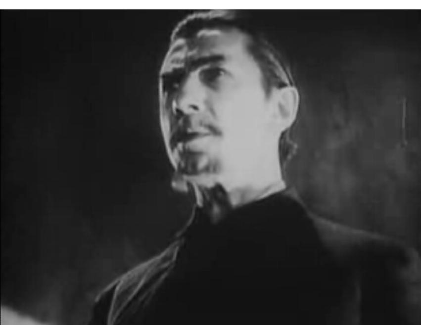 Bela Lugosi in White Zombie (1932).